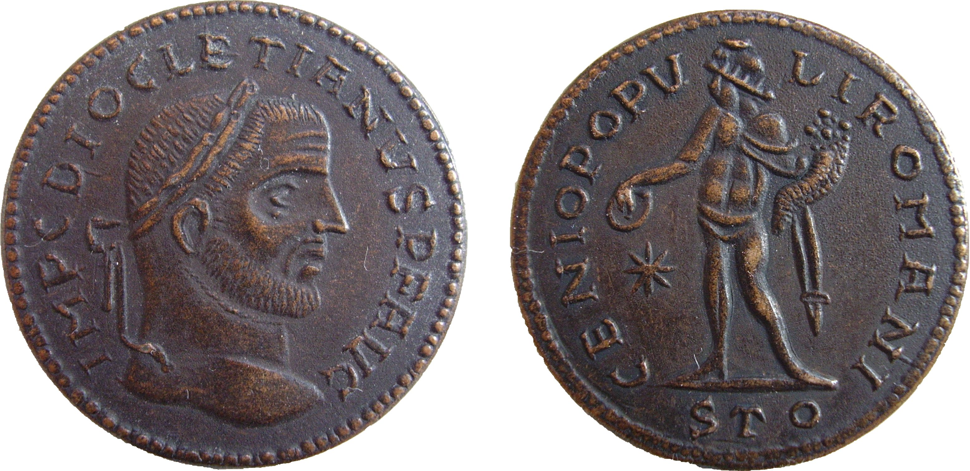 Diocletian AD 284-305. Æ Follis (27mm, 11.36 g, 7h). Ticinum mint. Struck circa AD 296-297.. IMP C DIOCLETIANVS PF AVG bust right GENIO POPVLI ROMANI; Genius holdinh patera and cornucopia. In field to left six rays star. In exergue: STO, mint sign; RIC VI 31a.